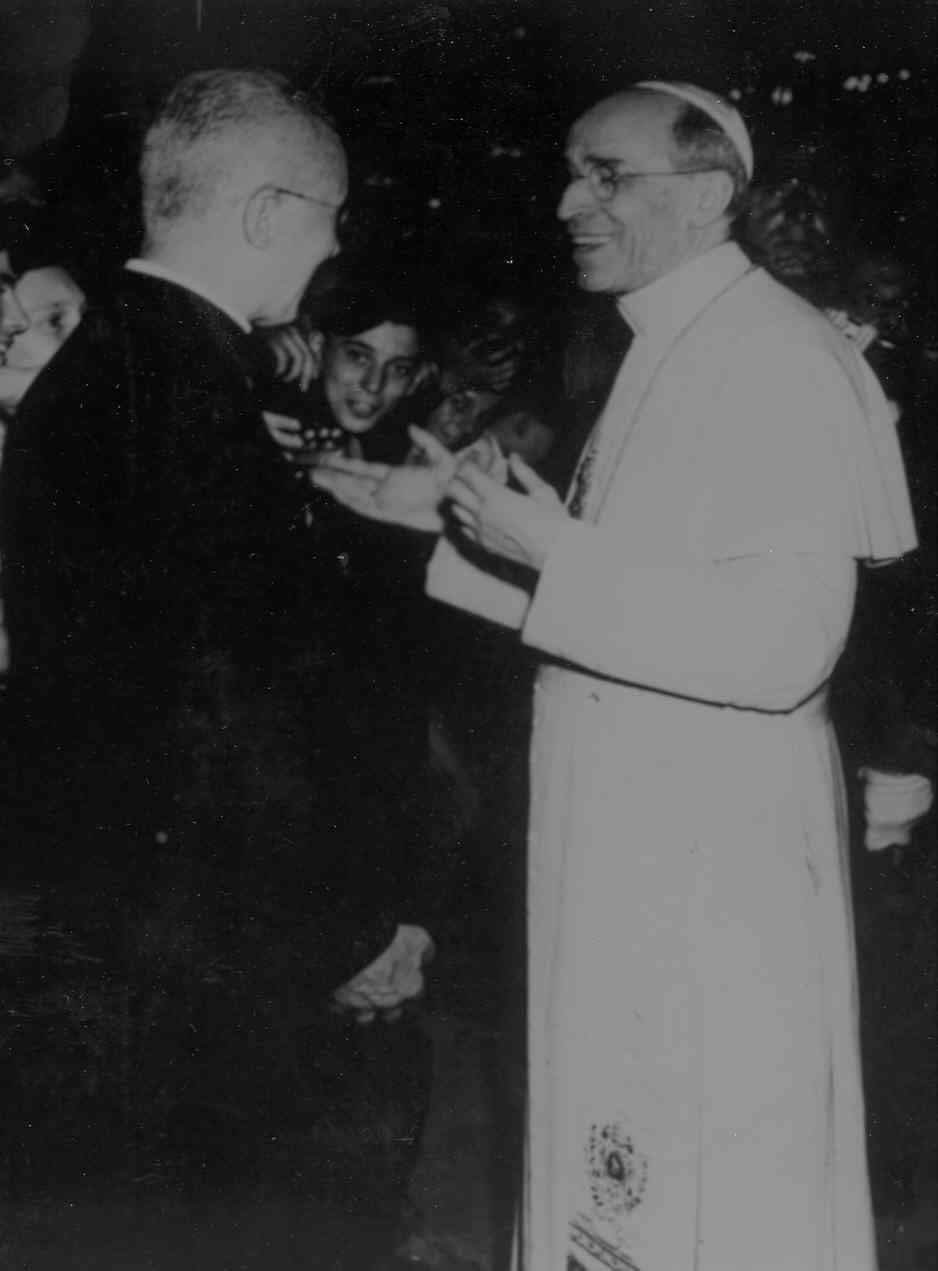 Picture taken during a general audience in St. Peter Basilica. Pope Pius XII greets pilgrims